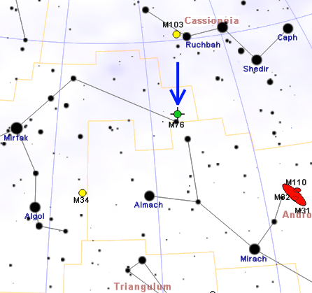 Map of M76